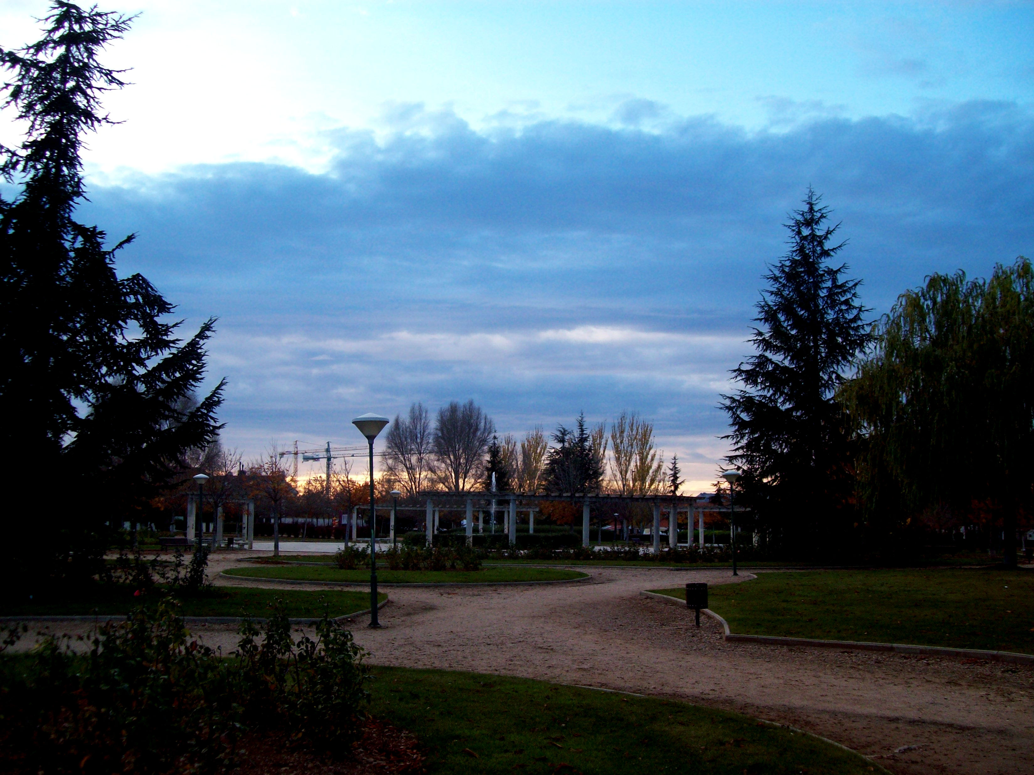 Park between Covaresa and Parque Alameda